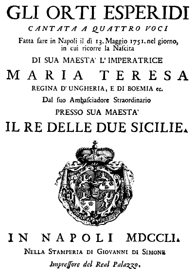 Nicola Conforto - Gli orti esperidi - titlepage of the libretto - Naples 1751